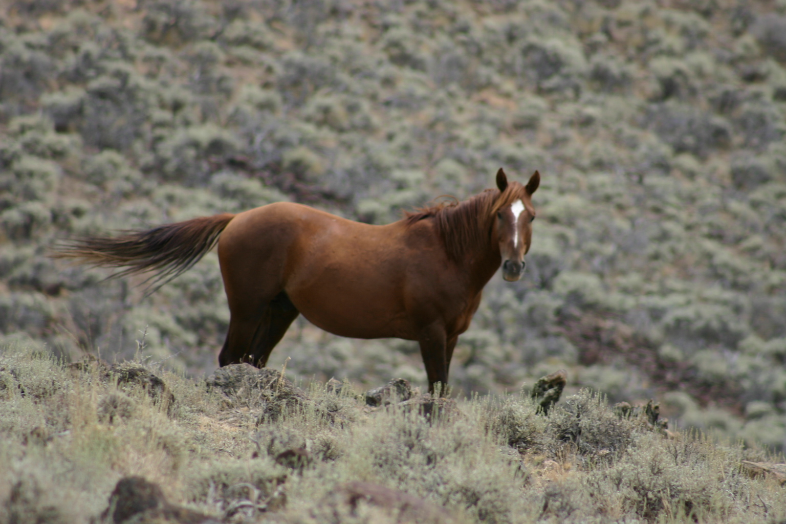 A Mustang in the Granite Range near the Black Rock Desert, seen during the search for the CSXT space booster.